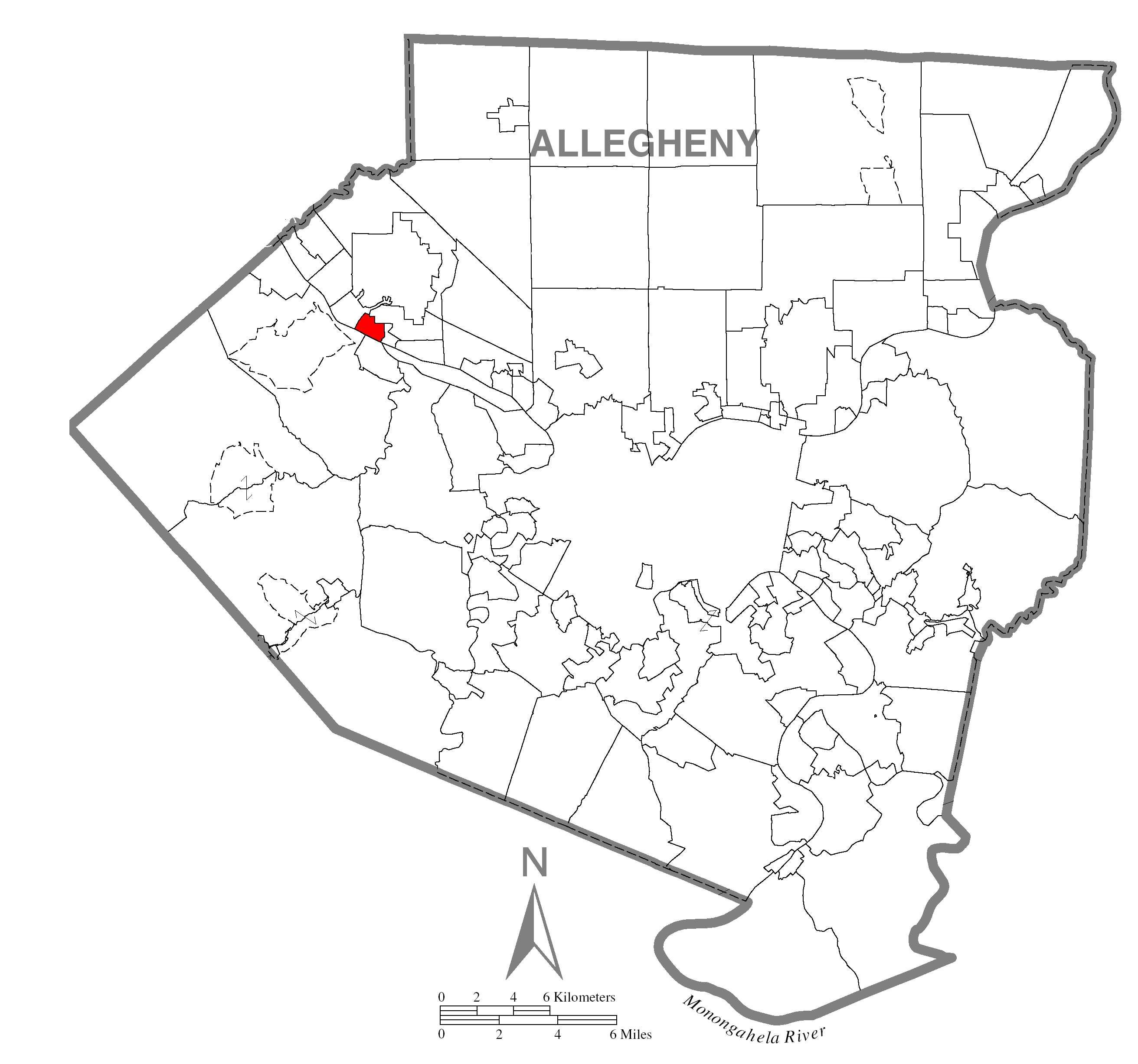 A map of Allegheny County showing Osborne, Pennsylvania (alternate) highlighted on the map.